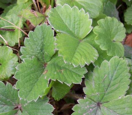 Barren Strawberry, non-flowering plant. Note that the leaves look almost exactly like strawberry leaves (as do the flowers). The fruits, however, are small, dry, inedible nuts. Photographed near Bensberg (Germany).